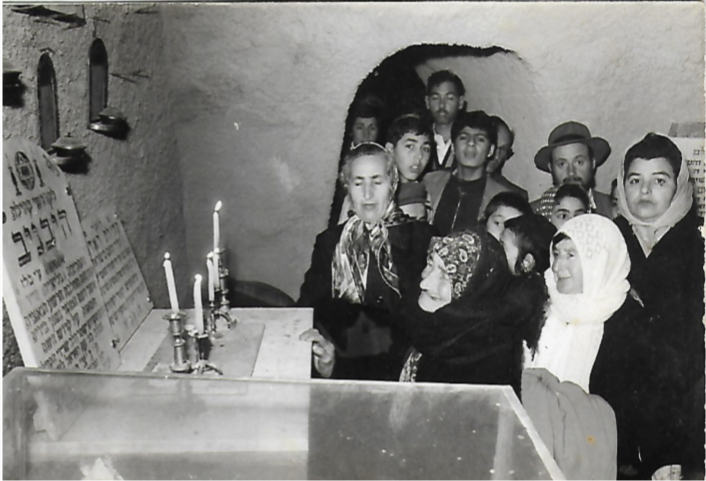 Jewish Holocaust refugees from Uhnow (Hivniv), Ukraine, at a memorial ceremony for their perished town members at the Chamber of the Holocaust, Mt. Zion, Jerusalem.